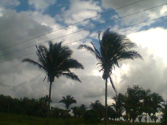 Native Brazillian Babassu palm, Attalea speciosa , near to the road of Pinheiro, Maranhão, Brazil.